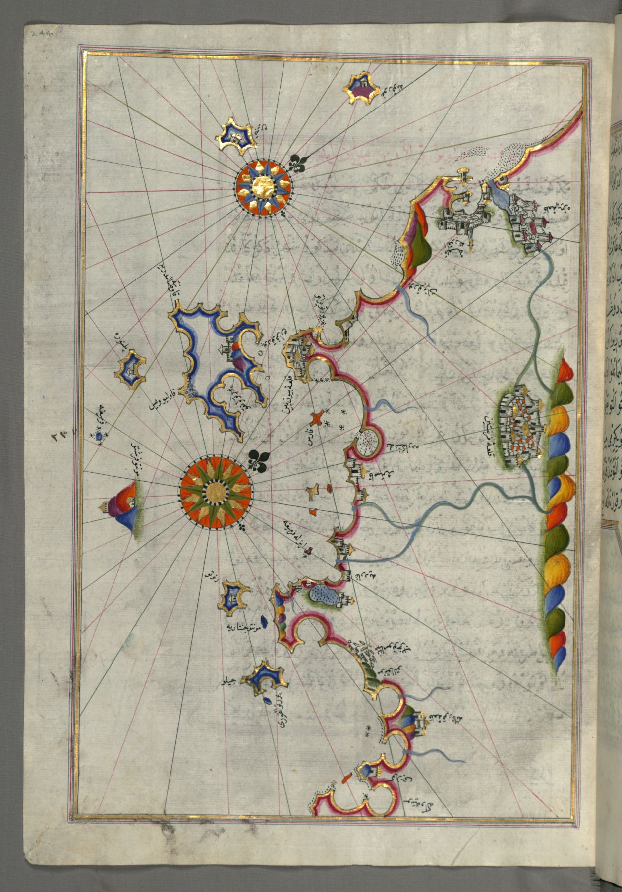 This folio from Walters manuscript W.658 contains a map of the western Italian coast as far as the city of Pisa (Pize).